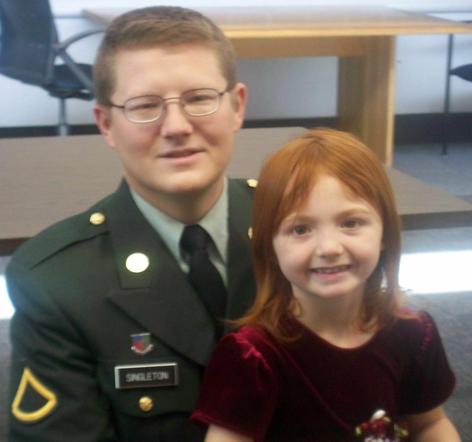 Haley Singleton is legally adopted